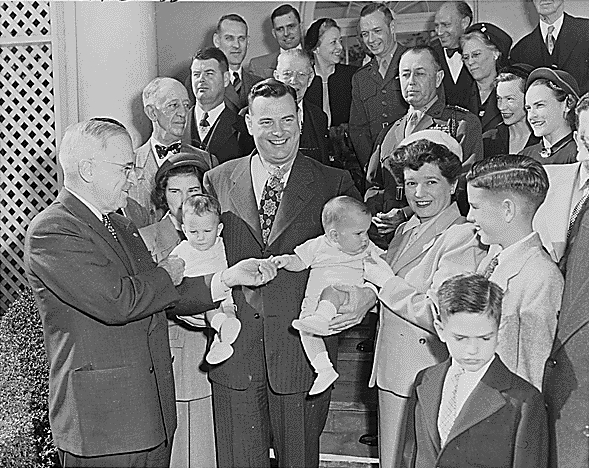 Photograph of President Harry S. Truman outside the White House with Colonel Justice M. Chambers of the U.S. Marine Corps Reserve and his family, on the occasion of Colonel Chambers receiving the Medal of Honor.